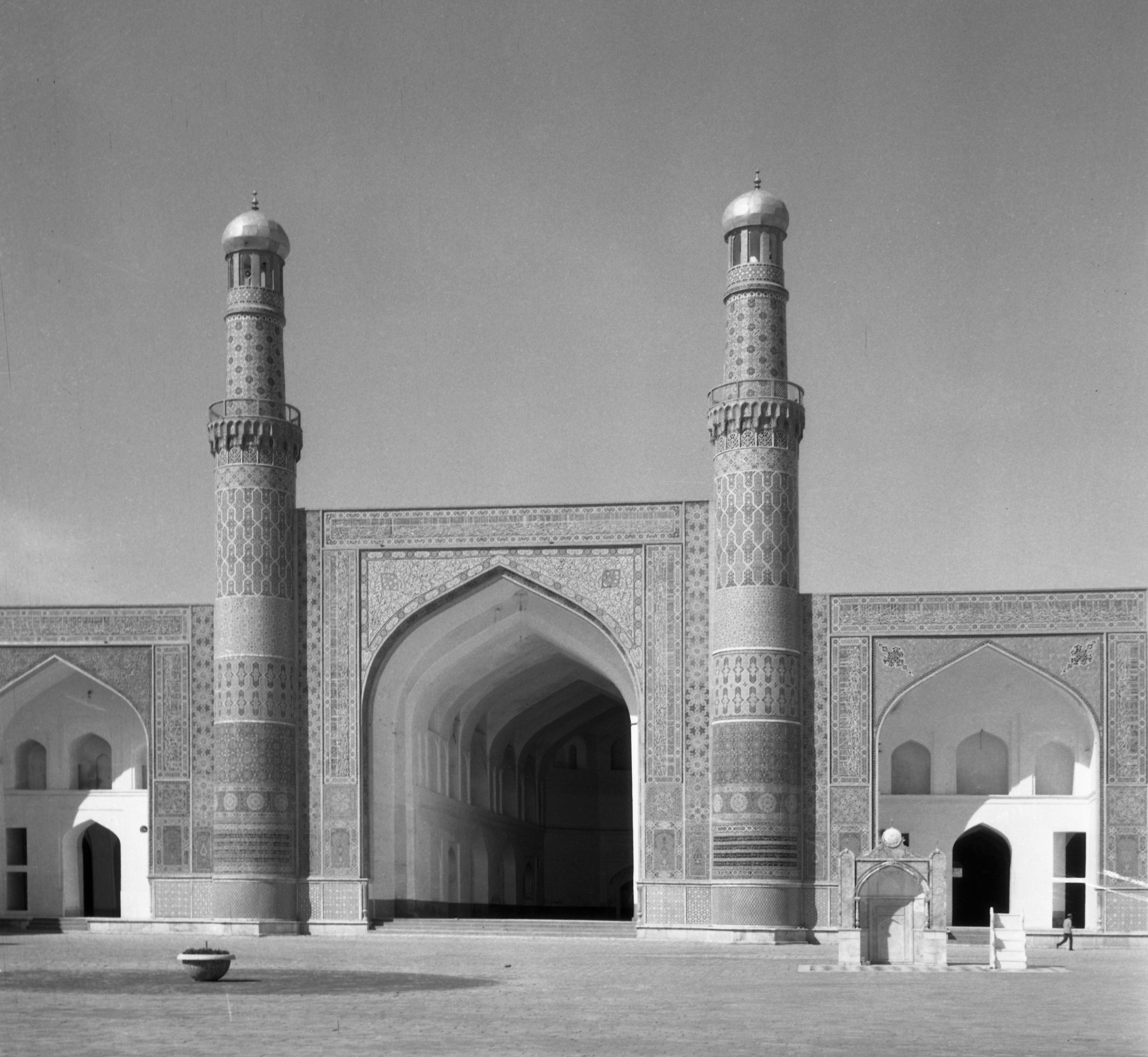 Jama Masjid of Herat.